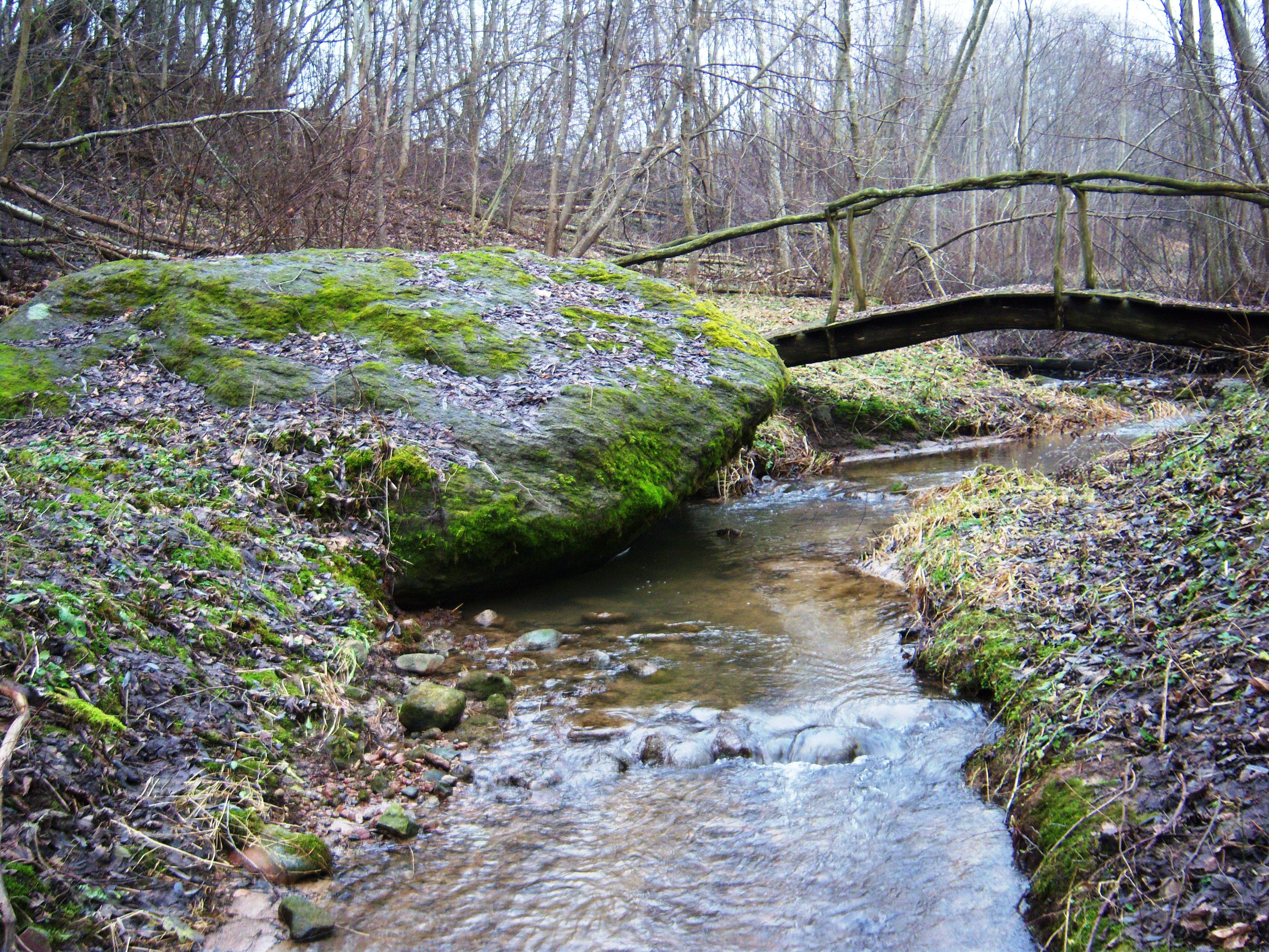 Skirtinas stone, Jaujupis stream, Raseiniai District, Lithuania